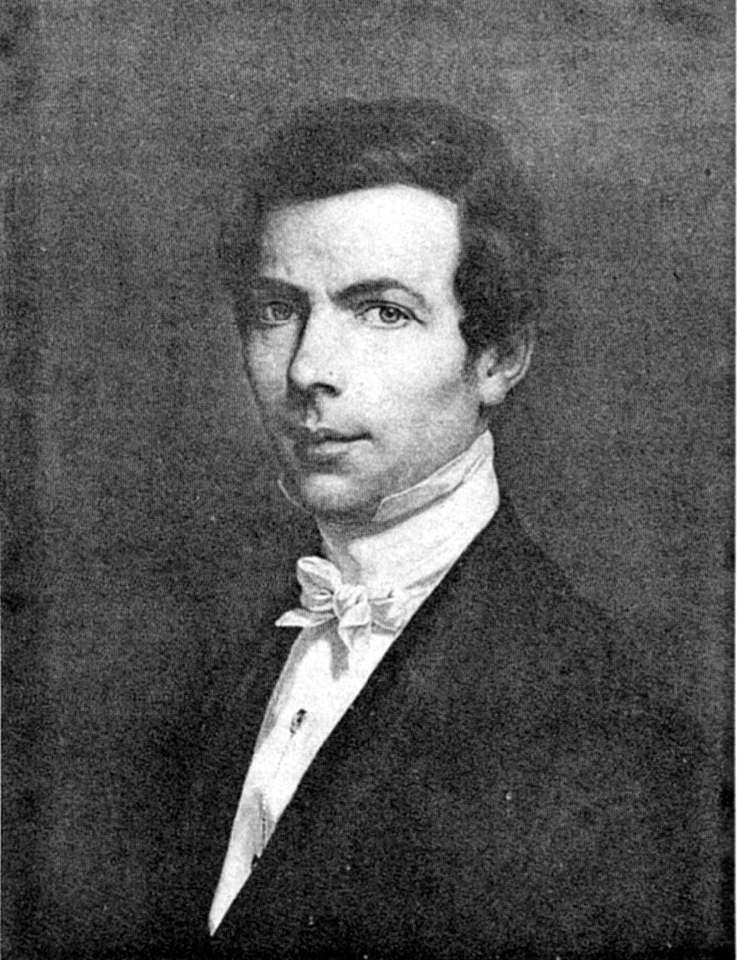 Aristide Cavaillé-Coll at age 25 Painting by Claude-Jules Grenier